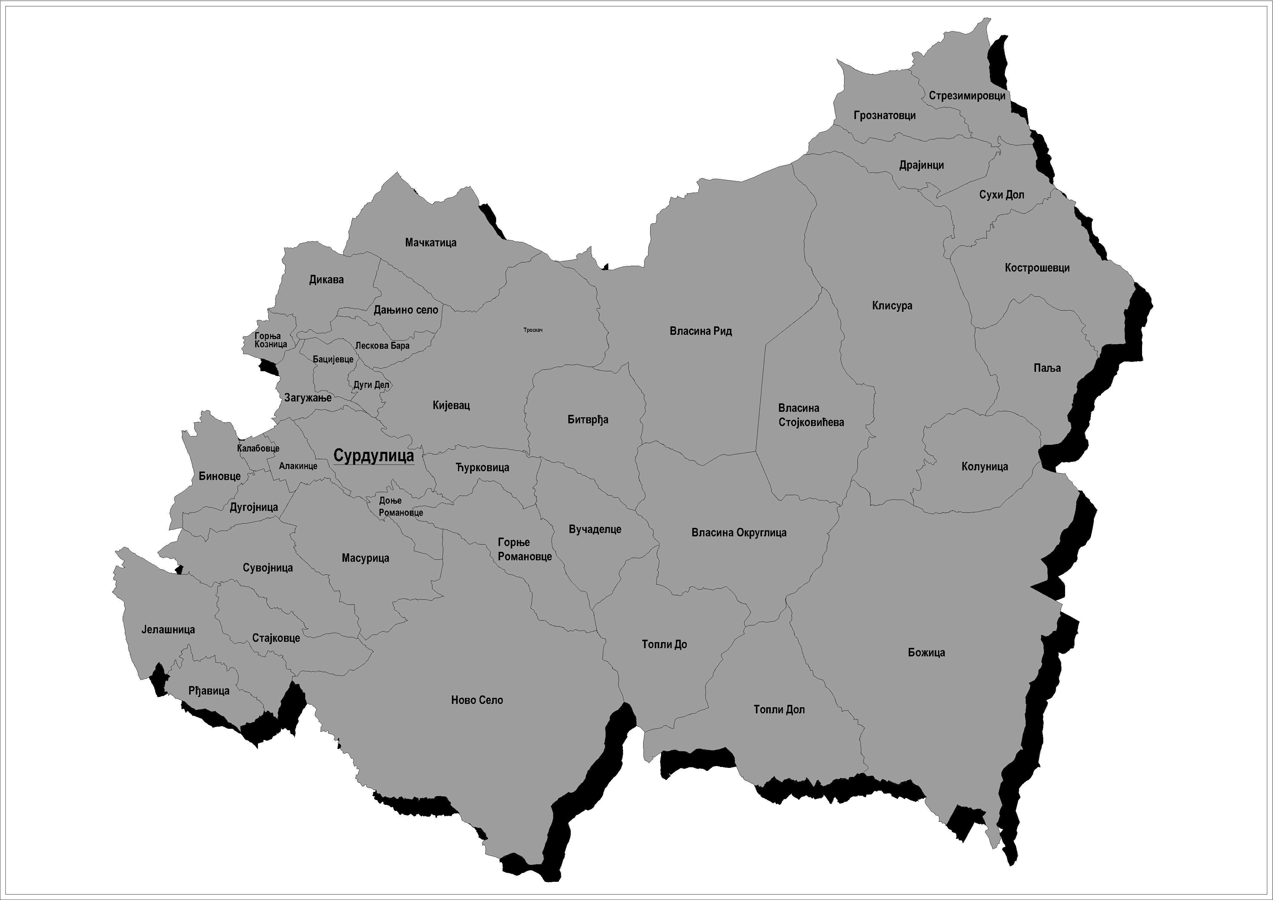 Surdulica Municipality